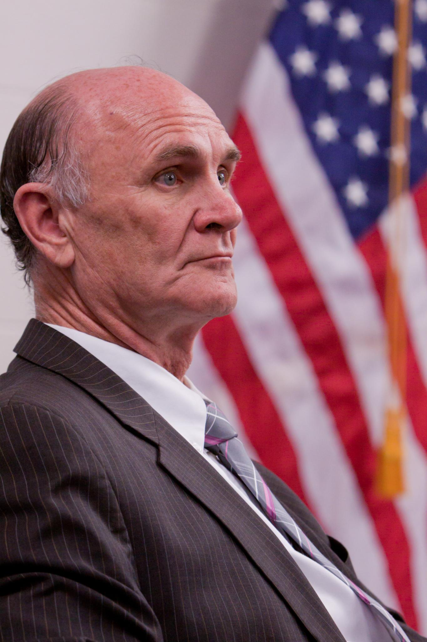 Image of El Paso Mayor John Cook